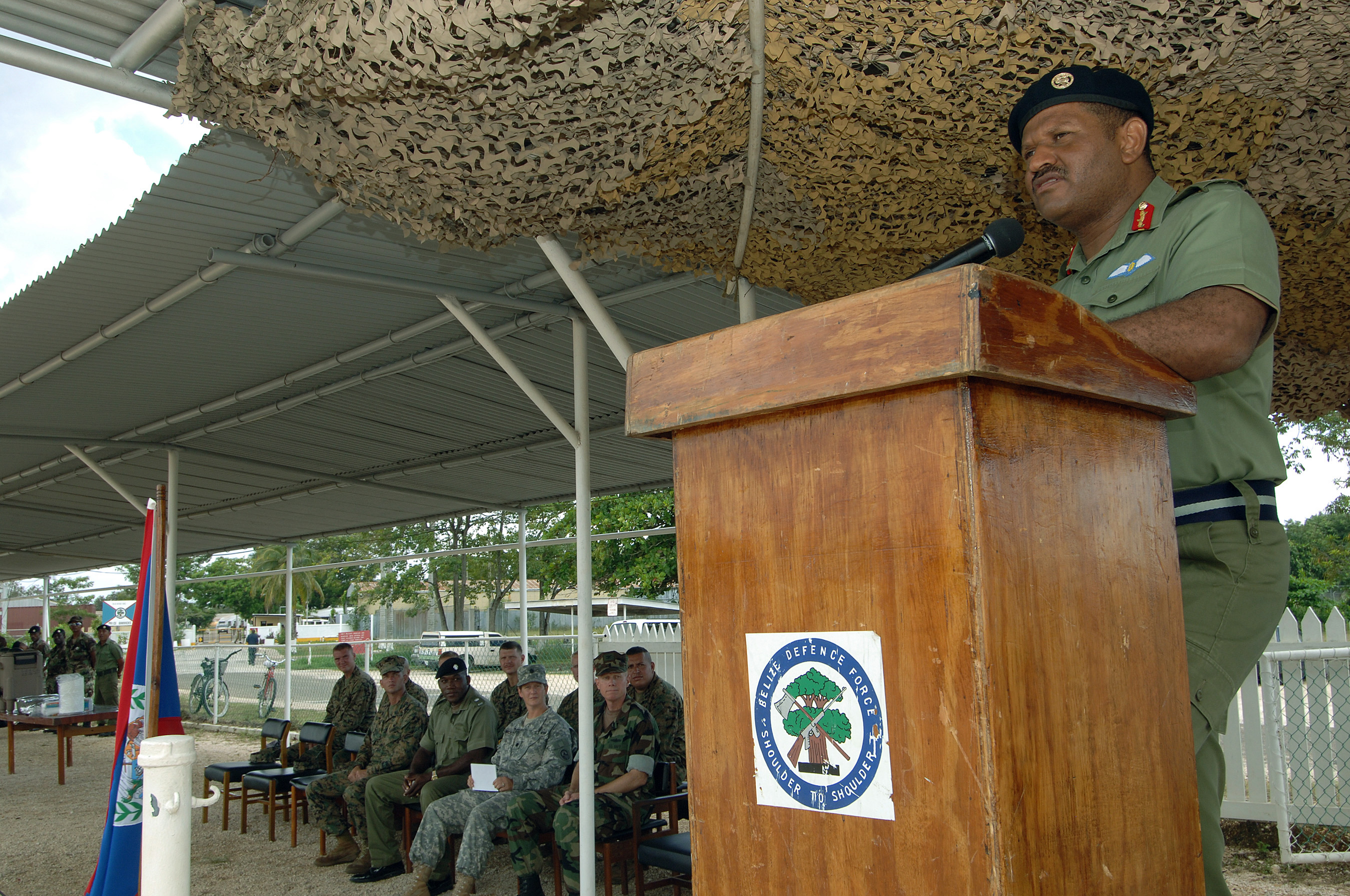 BELIZE CITY, Belize (Aug. 31, 2007) - Brig. Gen. Lloyd Gillett, commander of the Belize Defense Force, addresses Belize soldiers and recruits during a ceremony marking the completion of small unit training with a U.S. Marine Corps mobile training team. The event was conducted under the auspices of U.S. Naval Forces Southern Command, for the Global Fleet Station’s (GFS) pilot deployment to the Caribbean Basin and Central America. The deployment is designed to validate the GFS concept for the Navy, and to support U.S. Southern Command by enhancing cooperative partnerships with regional maritime services, and by improving the operational readiness of the participating nations’ military forces. U.S. Navy photo by Mass Communication Specialist 1st Class David Hoffman (RELEASED)